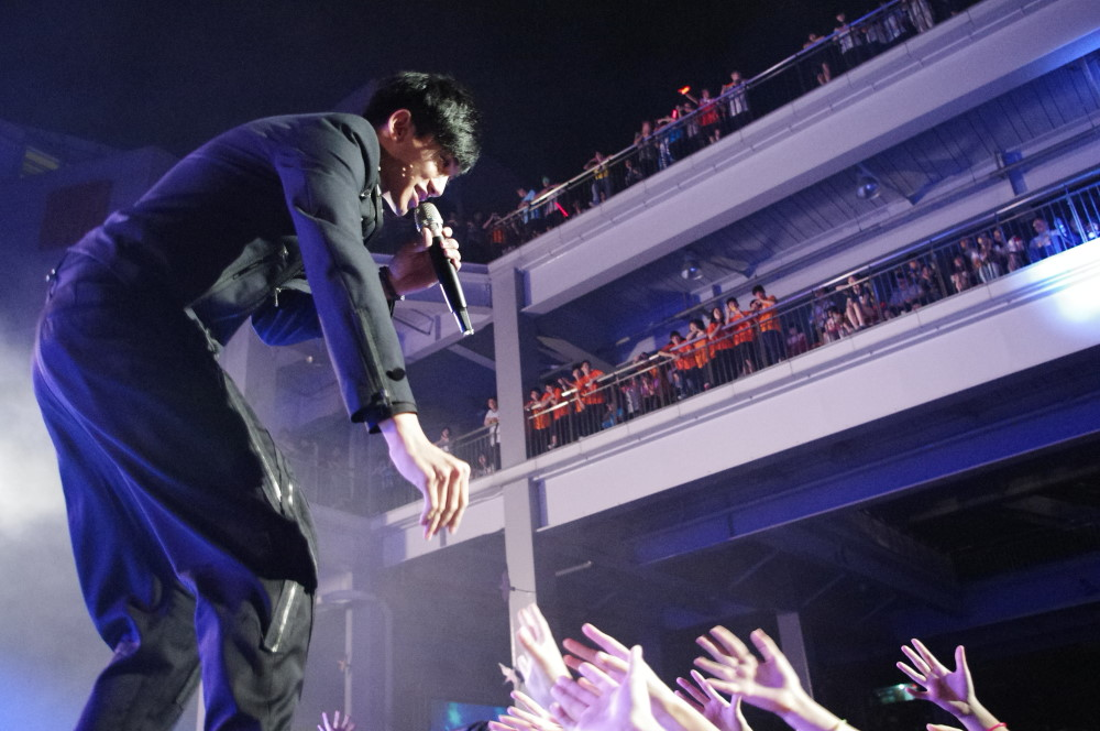 One of the famous singer singing in star's night of year 2011, photo taken by photograph club and licensed free use.